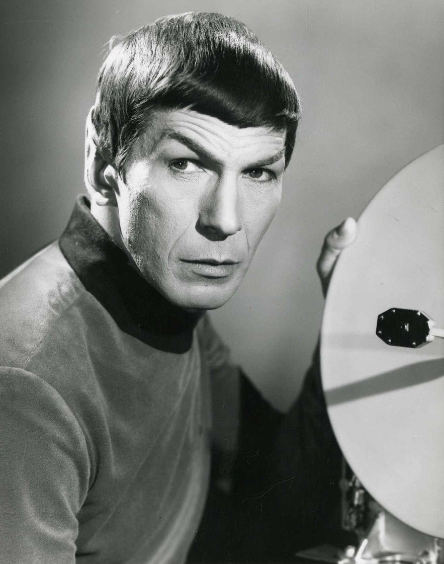 Promotional image of Leonard Nimoy as Spock from Star Trek: The Original Series. The photo has no copyright markings on it as can be seen in the links below.